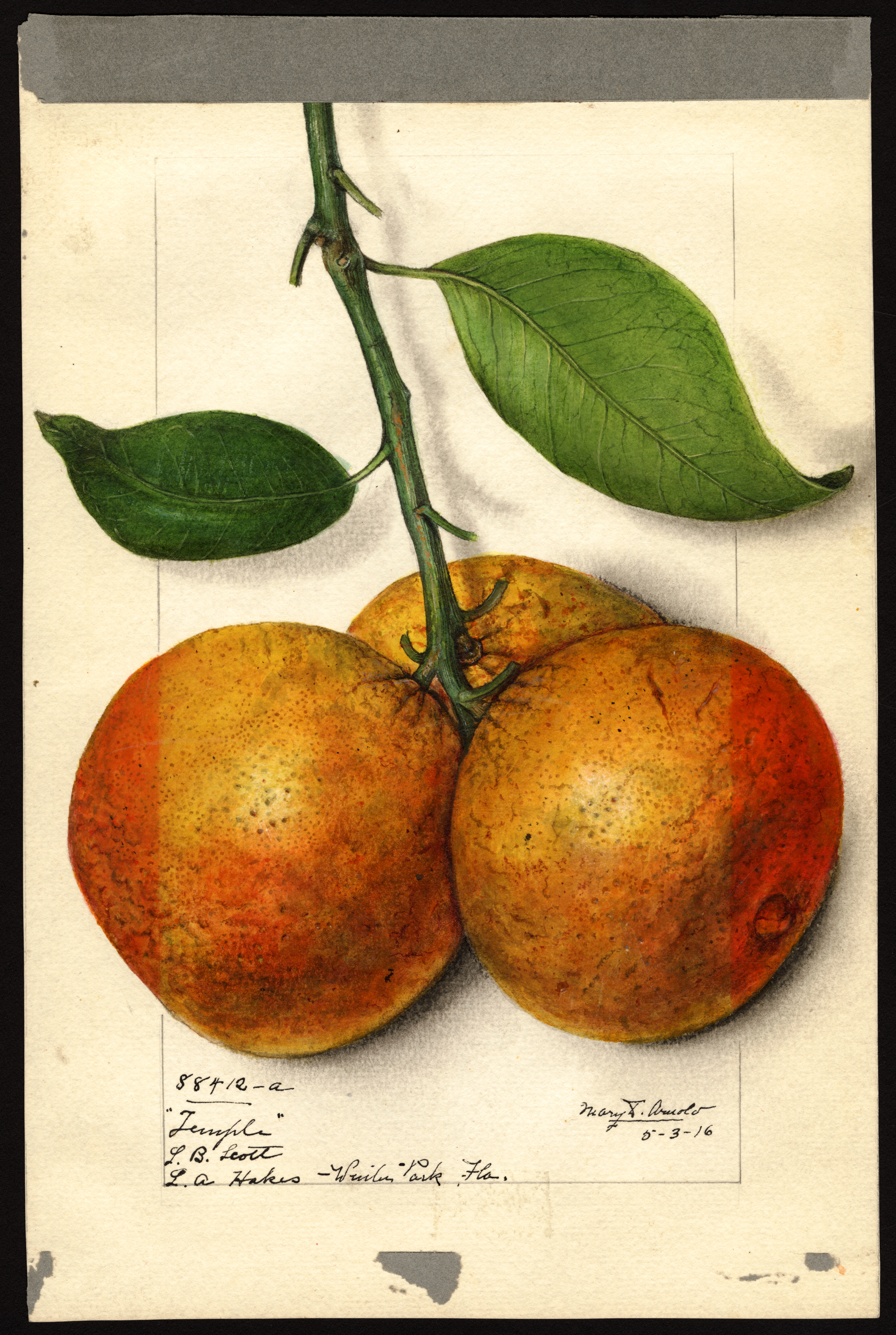 Image of the Temple variety of oranges (scientific name: Citrus sinensis), with this specimen originating in Winter Park, Orange County, Florida, United States. Source: U.S. Department of Agriculture Pomological Watercolor Collection. Rare and Special Collections, National Agricultural Library, Beltsville, MD 20705.